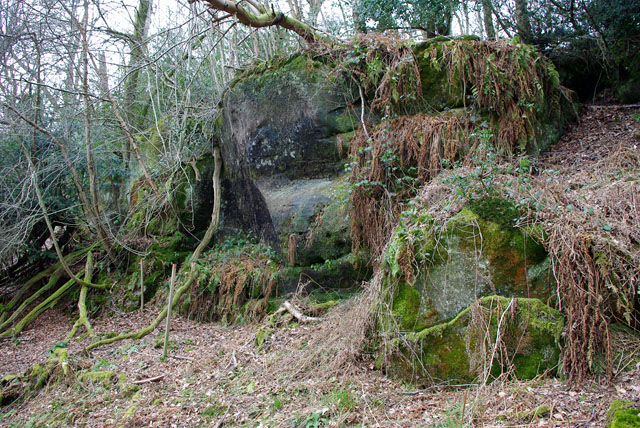 Sandstone crag, Tilgate Wood Covered with an interesting assortment of lower plants. The two red-topped sticks are presumably markers for a rather baffling exercise, no doubt by Wakehurst Place people. At various reachable places on the rock, small holes have been drilled, and stopped up again with projecting rawlplugs.